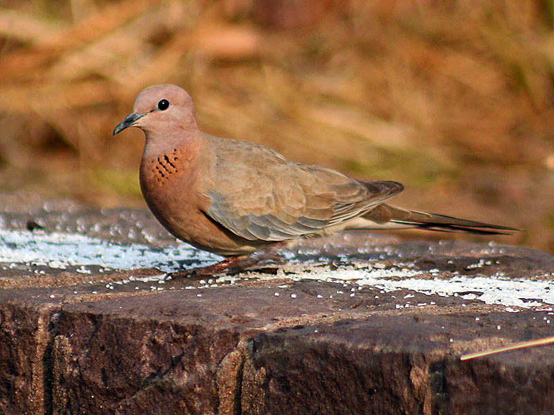 Laughing Dove Streptopelia senegalensis in Bhopal, Madhya Pradesh, India.